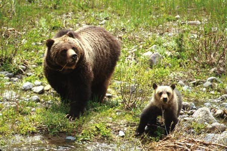 A grizzly bear (Ursus arctos horribilis) sow and cub in Shoshone National Forest, Wyoming, United States